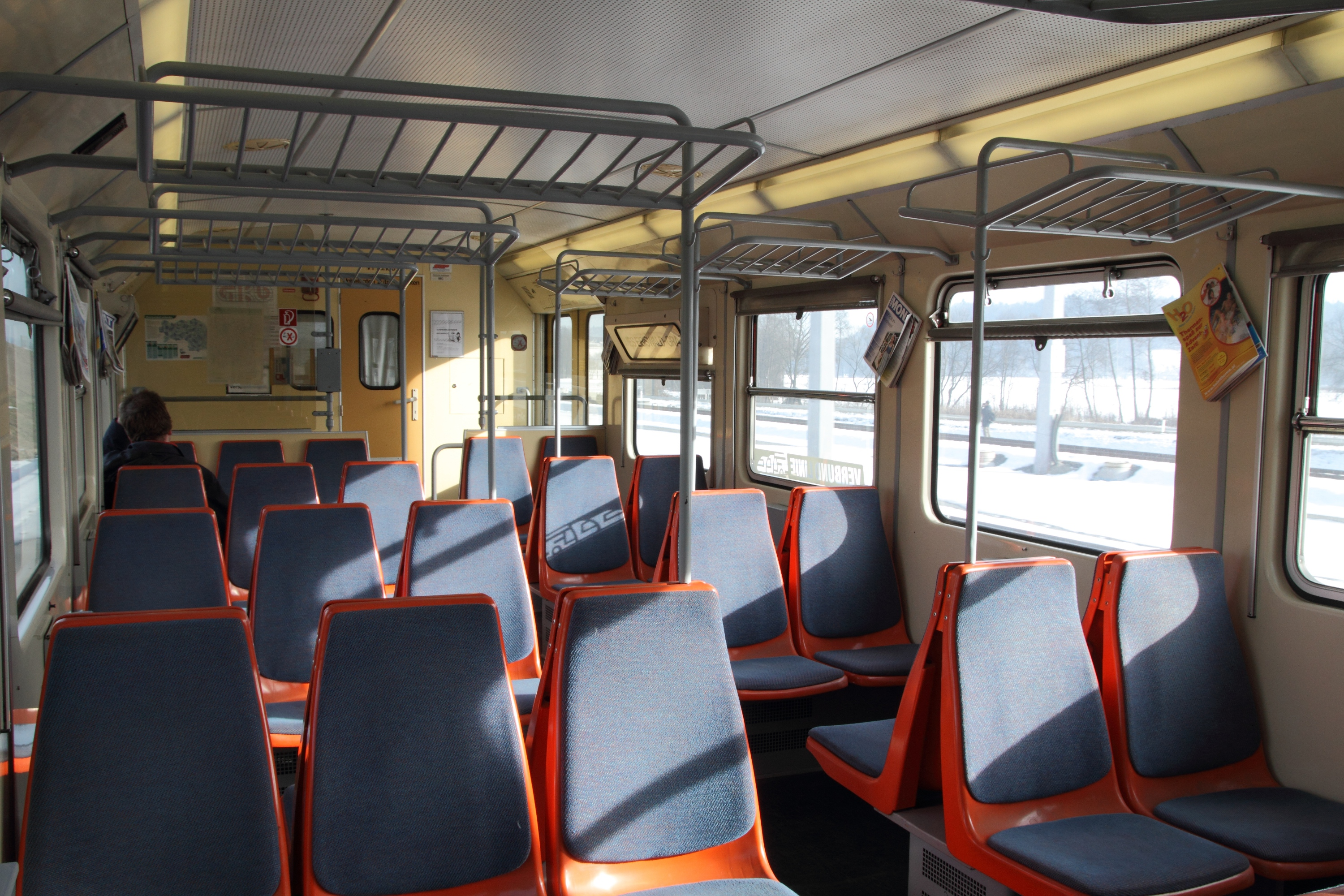 Inside view of a GKB VT 70.